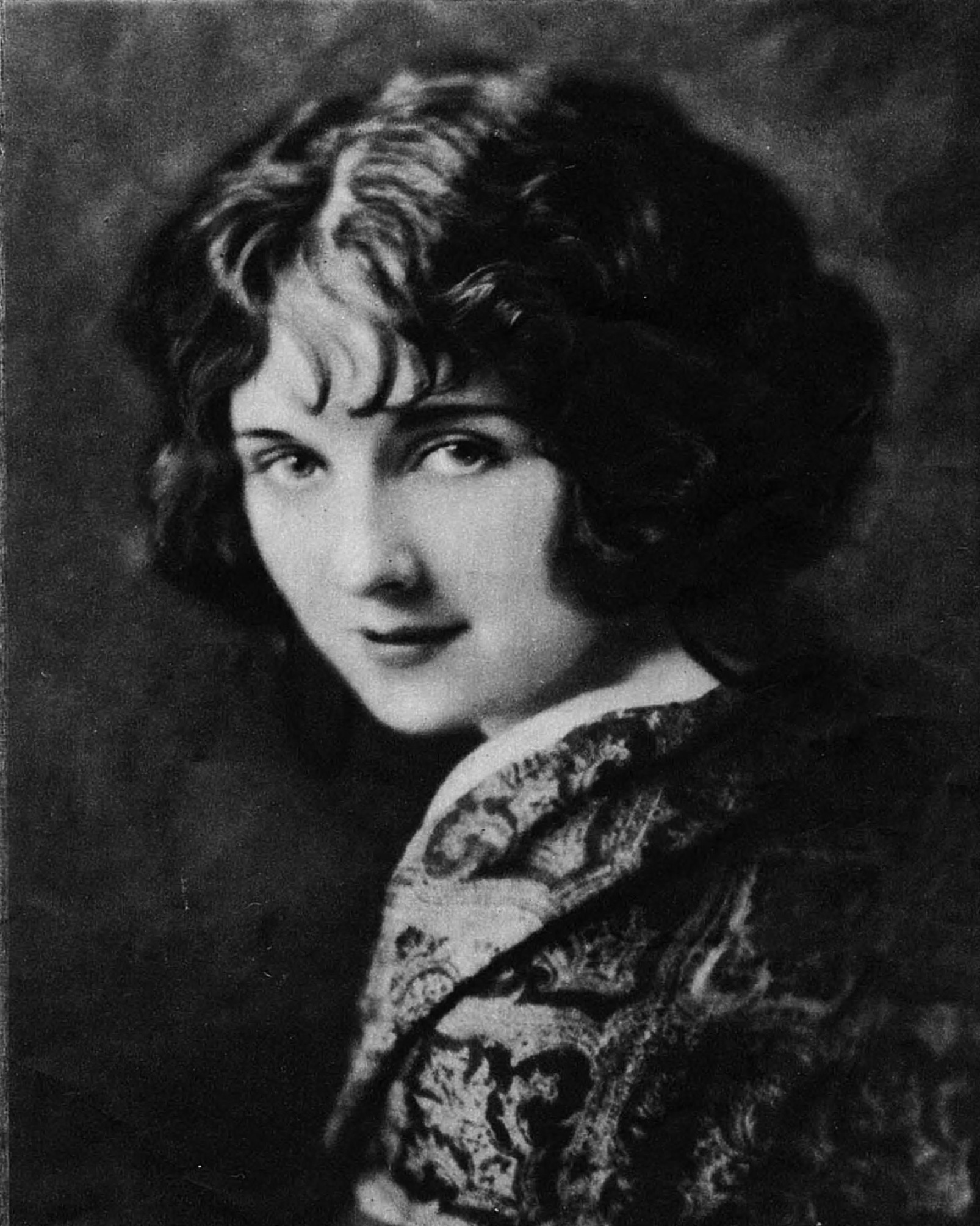 Screenland, October 1923. She is pictured without her blonde wig.